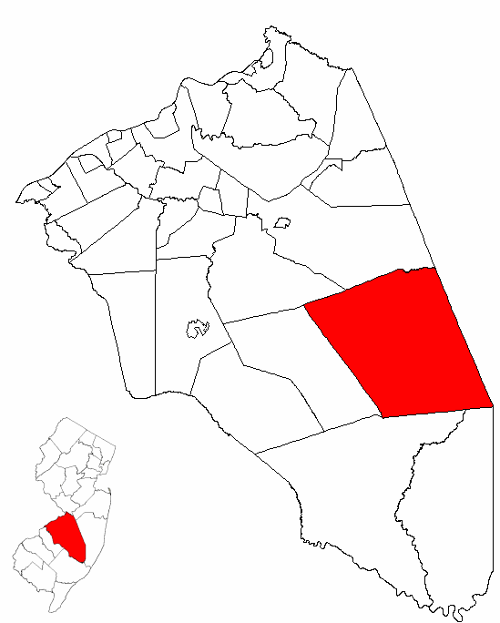 Map of Burlington County highlighting Woodland Township